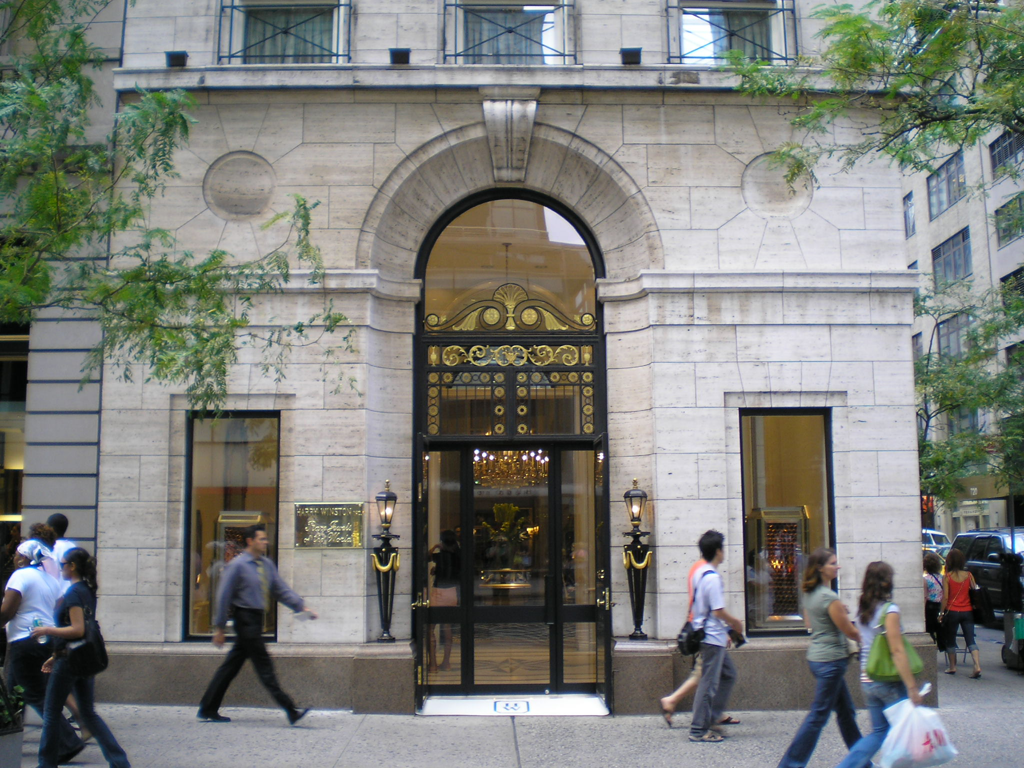 The author of this photograph is me, David Shankbone. 17 August 2006. Harry Winston Jewelers on Fifth Avenue, New York City.